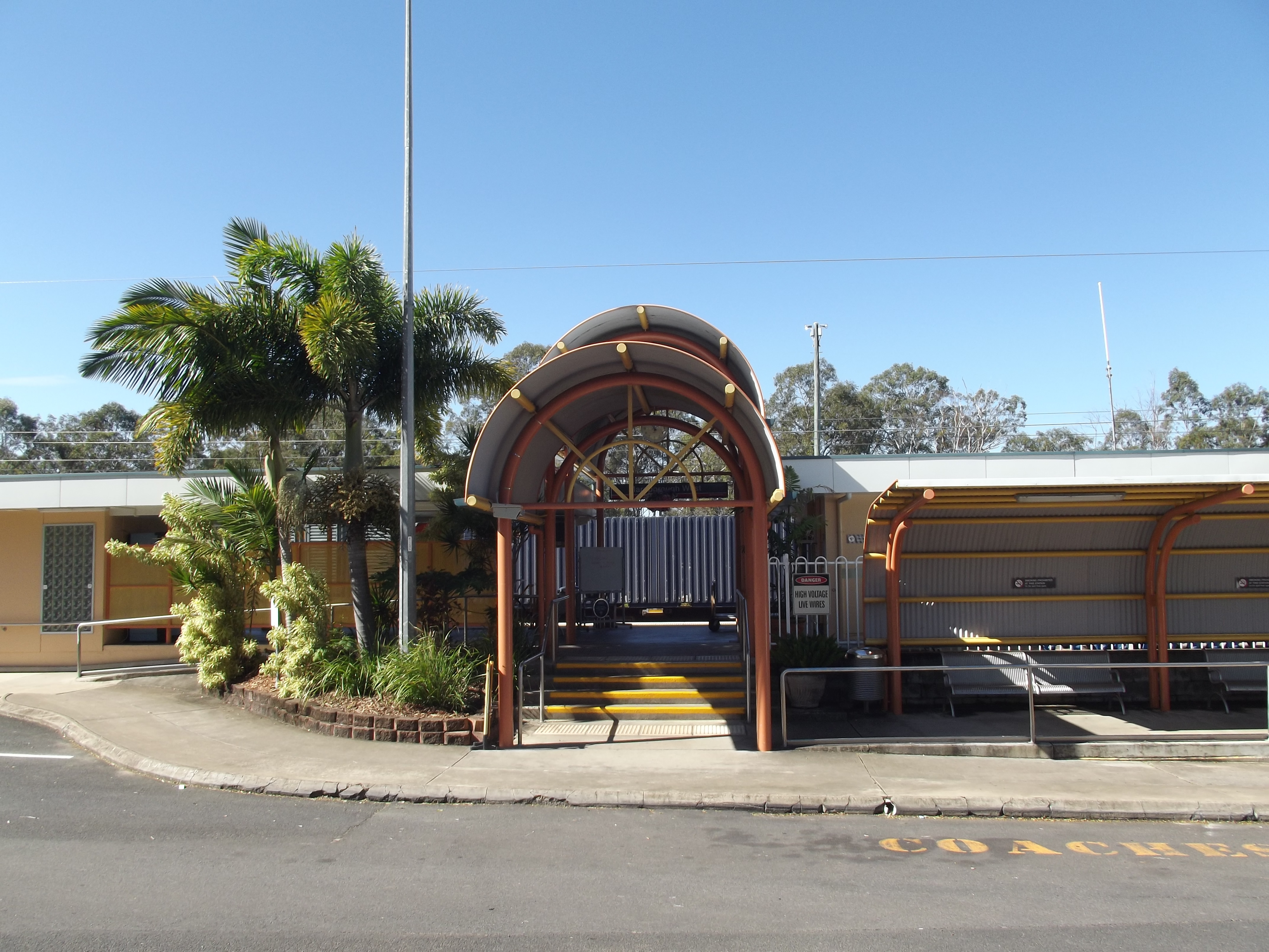 A photo of the Maryborough West railway station, operated by Queensland Rail, located in Fraser Coast, Australia.